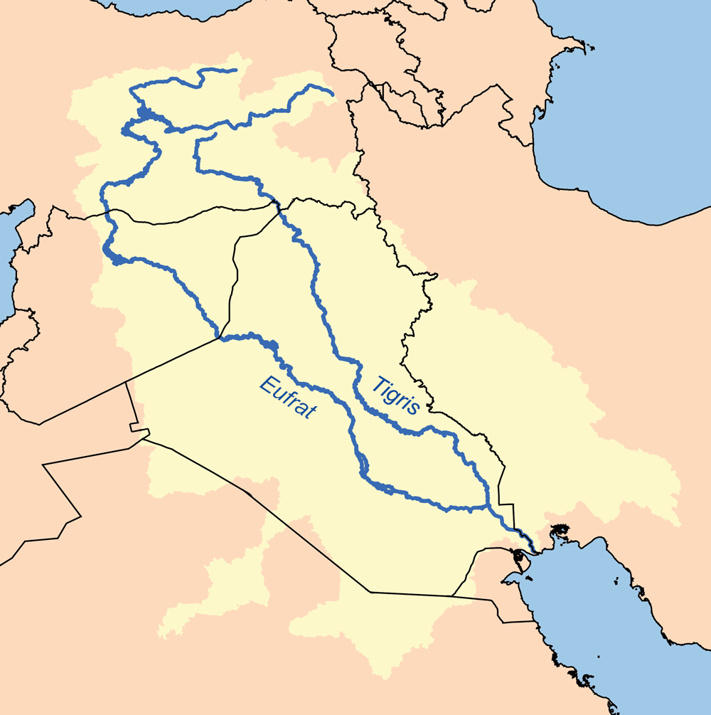 Map of the Tigris - Euphrates drainage basin with translated labels (Tigris and Eufrat) used in Norwegian, Danish, Swedish, Finnish, Estonian, Czech, Serbo-Croatian, Slovak and probably many other languages.